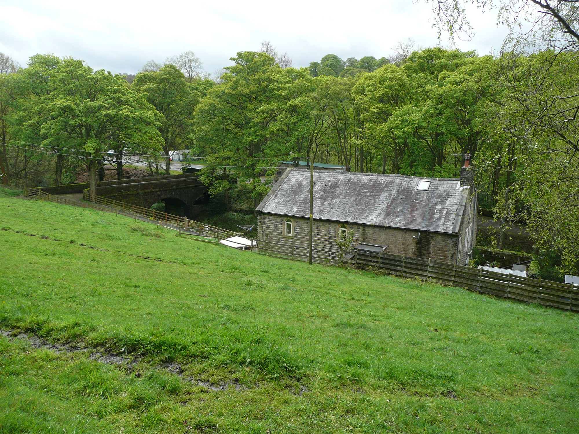 Station House, Norland Seen from the driveway to Rough Hey. The station was called Triangle after the nearby industrial hamlet.